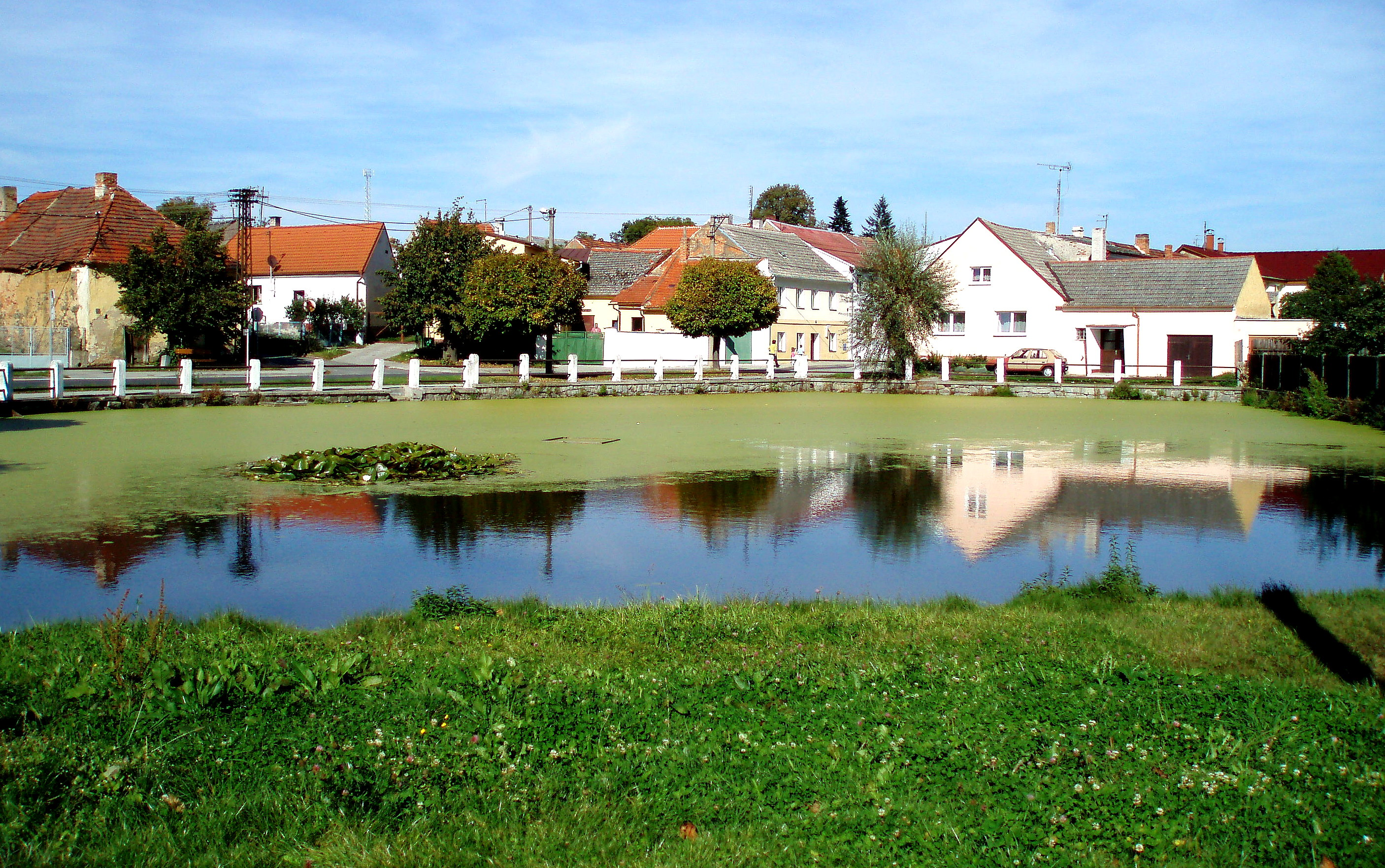 Centrum of Koloveč